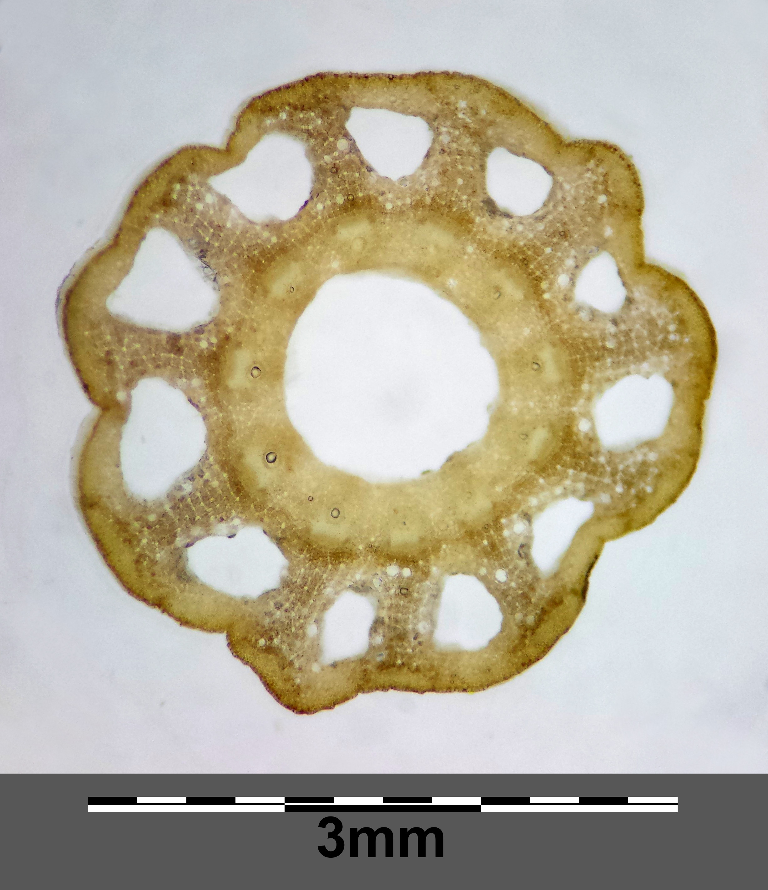 Stem sliced (fertile stem) Taxonym: Equisetum arvense subsp. arvense ss Fischer et al. EfÖLS 2008 ISBN 978-3-85474-187-9 Location: Jedlersdorf rail station, Vienna-Floridsdorf - ca. 160 m a.s.l. Habitat: ballast